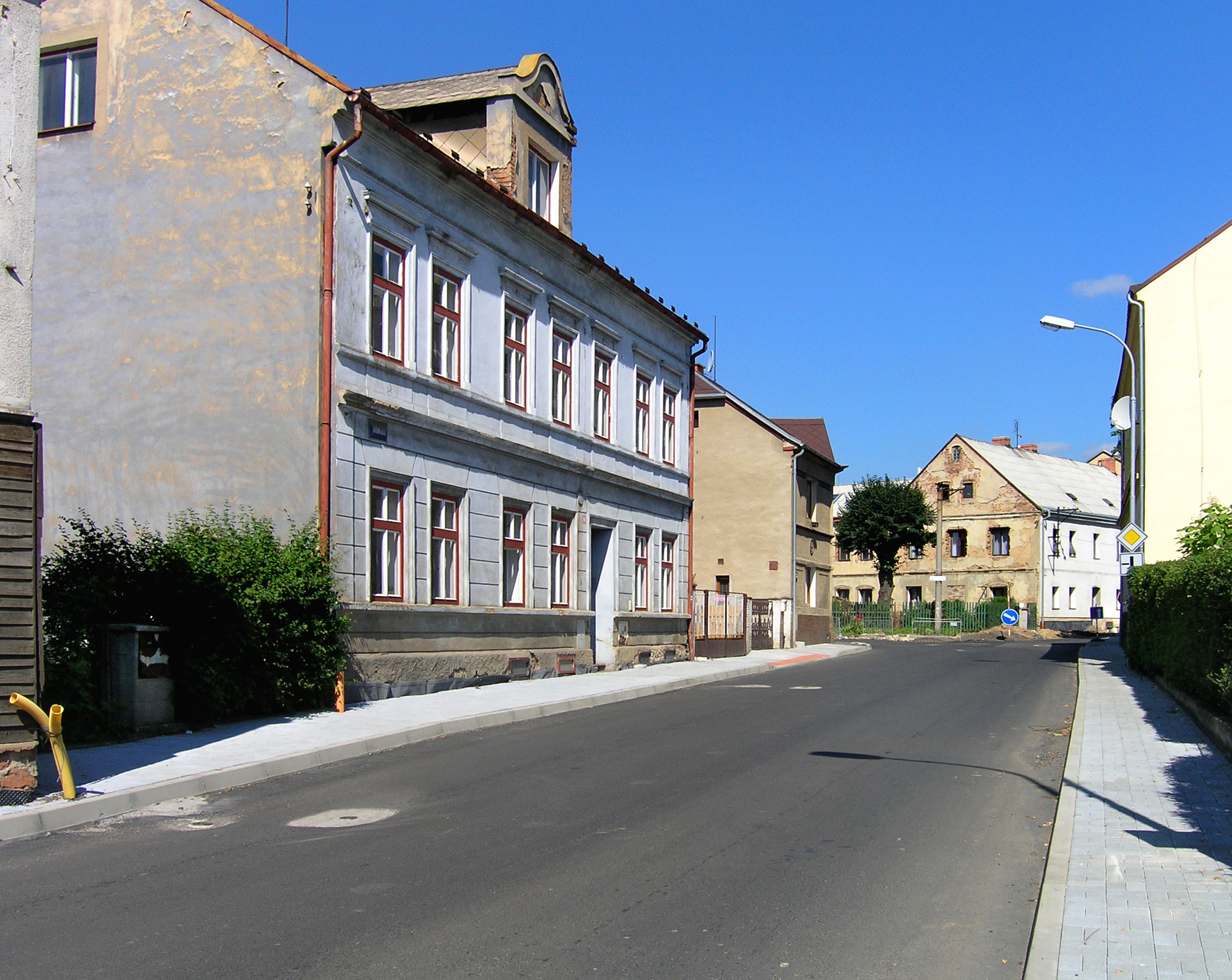 Školní street in Mstišov, part of Dubí town, Czech Republic